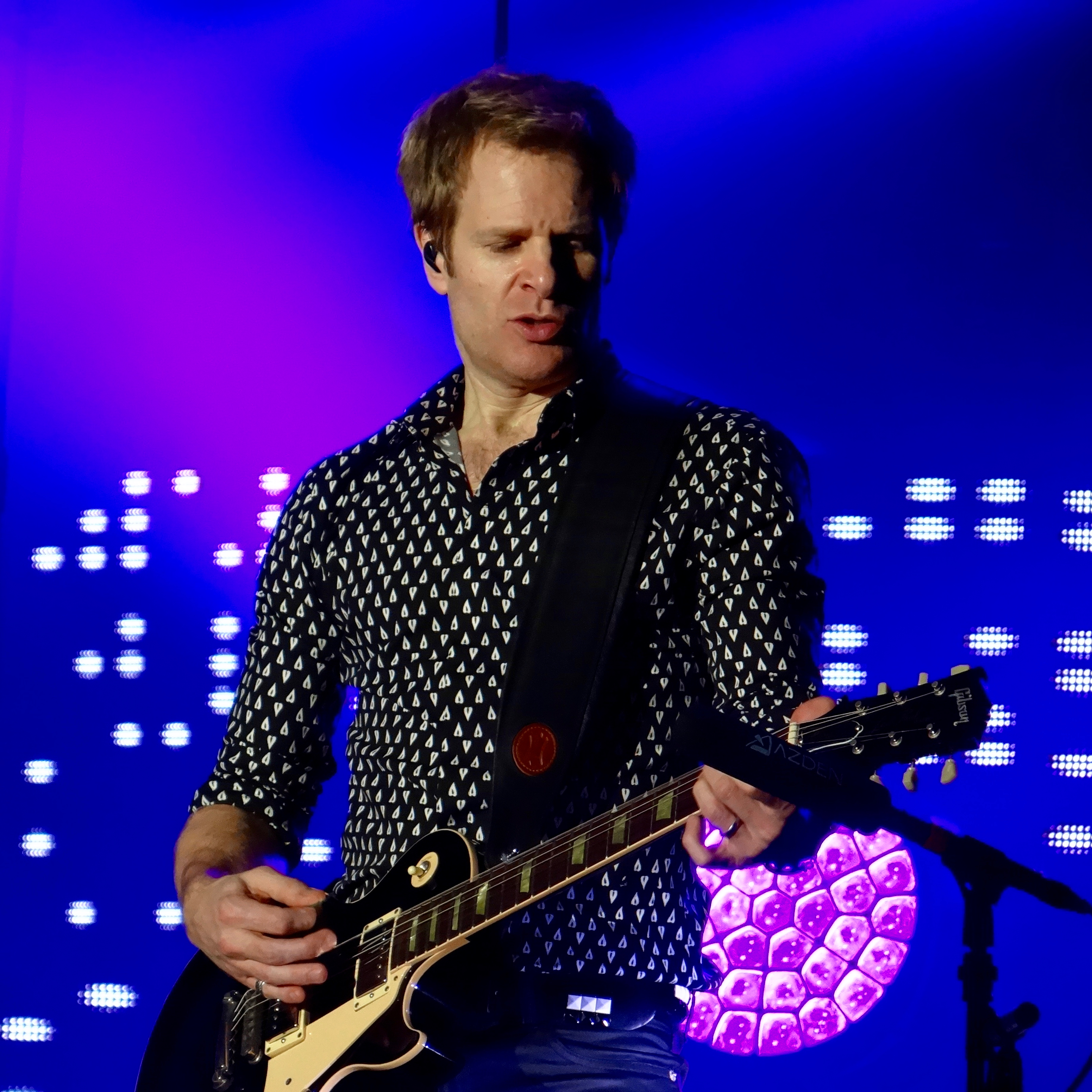 Dom Brown performing in 2015